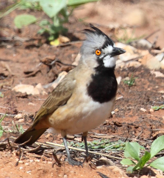 Crested bellbird (Oreoica gutteralis), Northern Territory, Australia